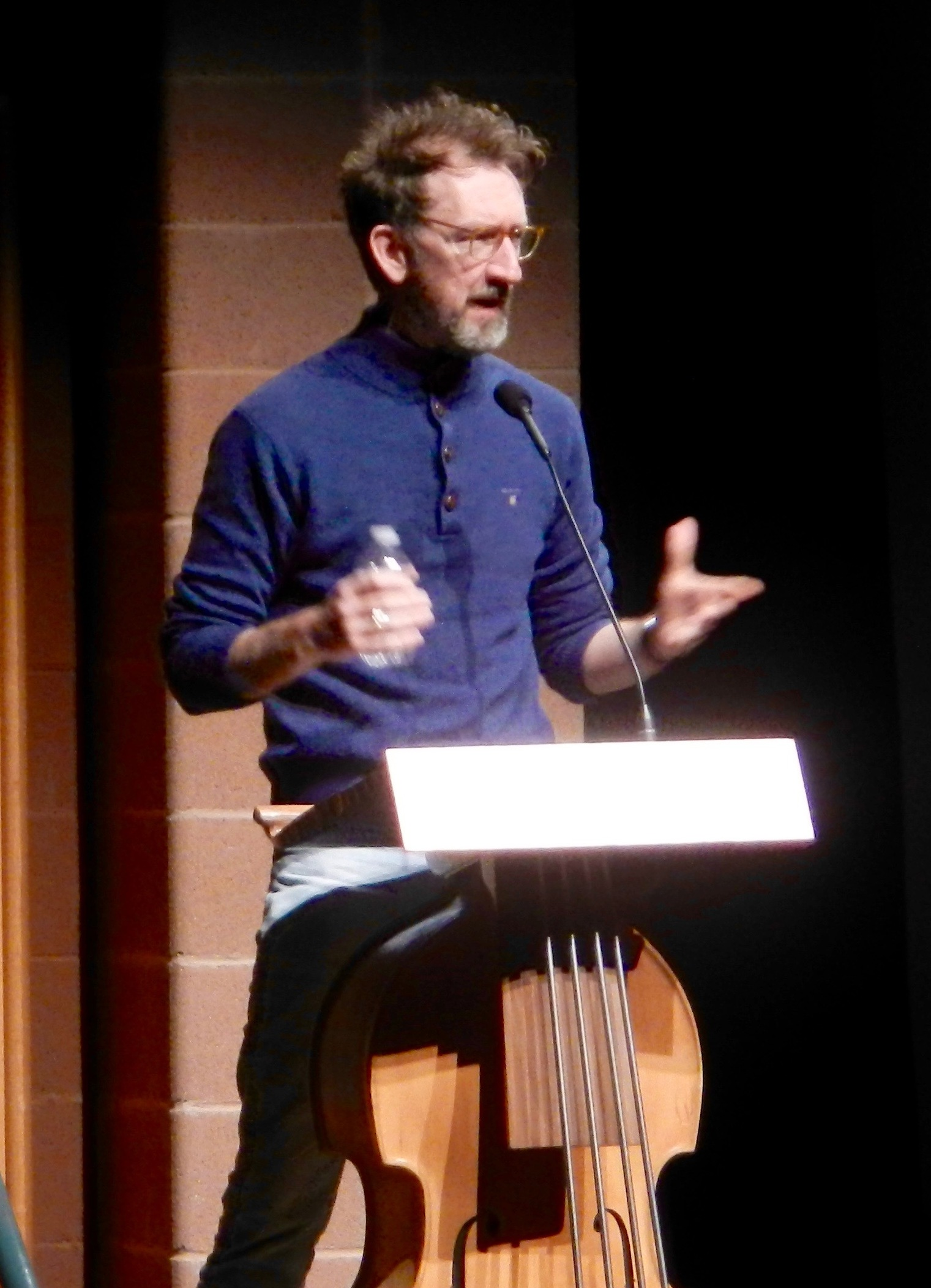 Sundance 2016, Park City UT